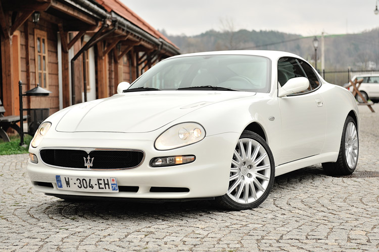 Maserati 3200 GT